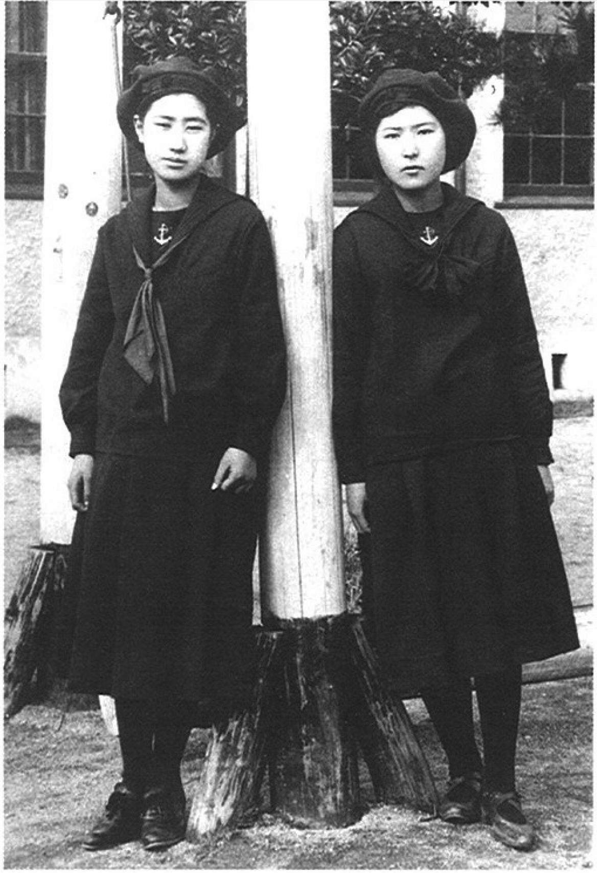 Students of Fukuoka Jogakkou, Fukuoka, Japan, in their school uniform.